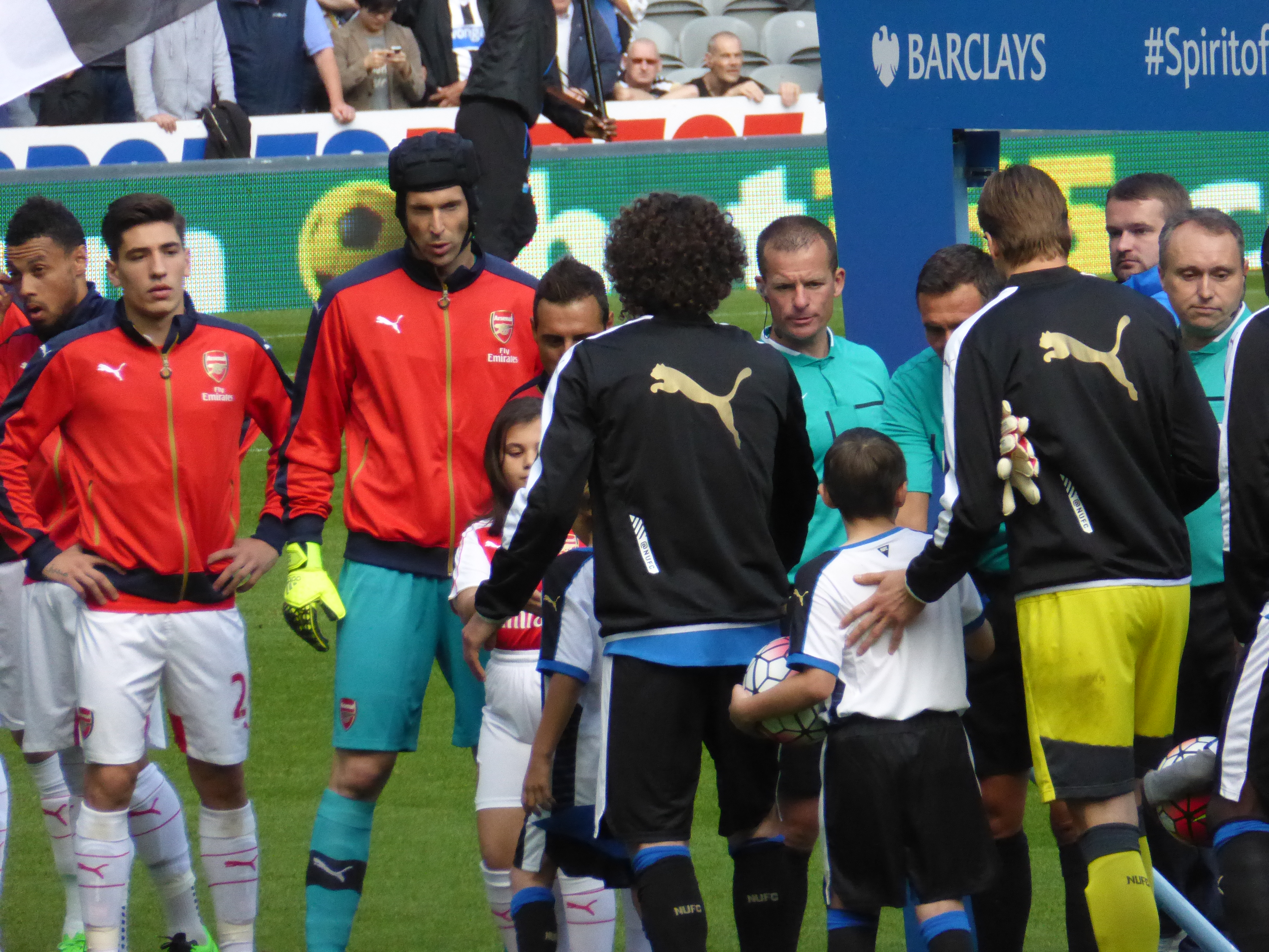 Newcastle United vs Arsenal (0-1), St James' Park, Newcastle upon Tyne, Tyne and Wear, England, August 2015